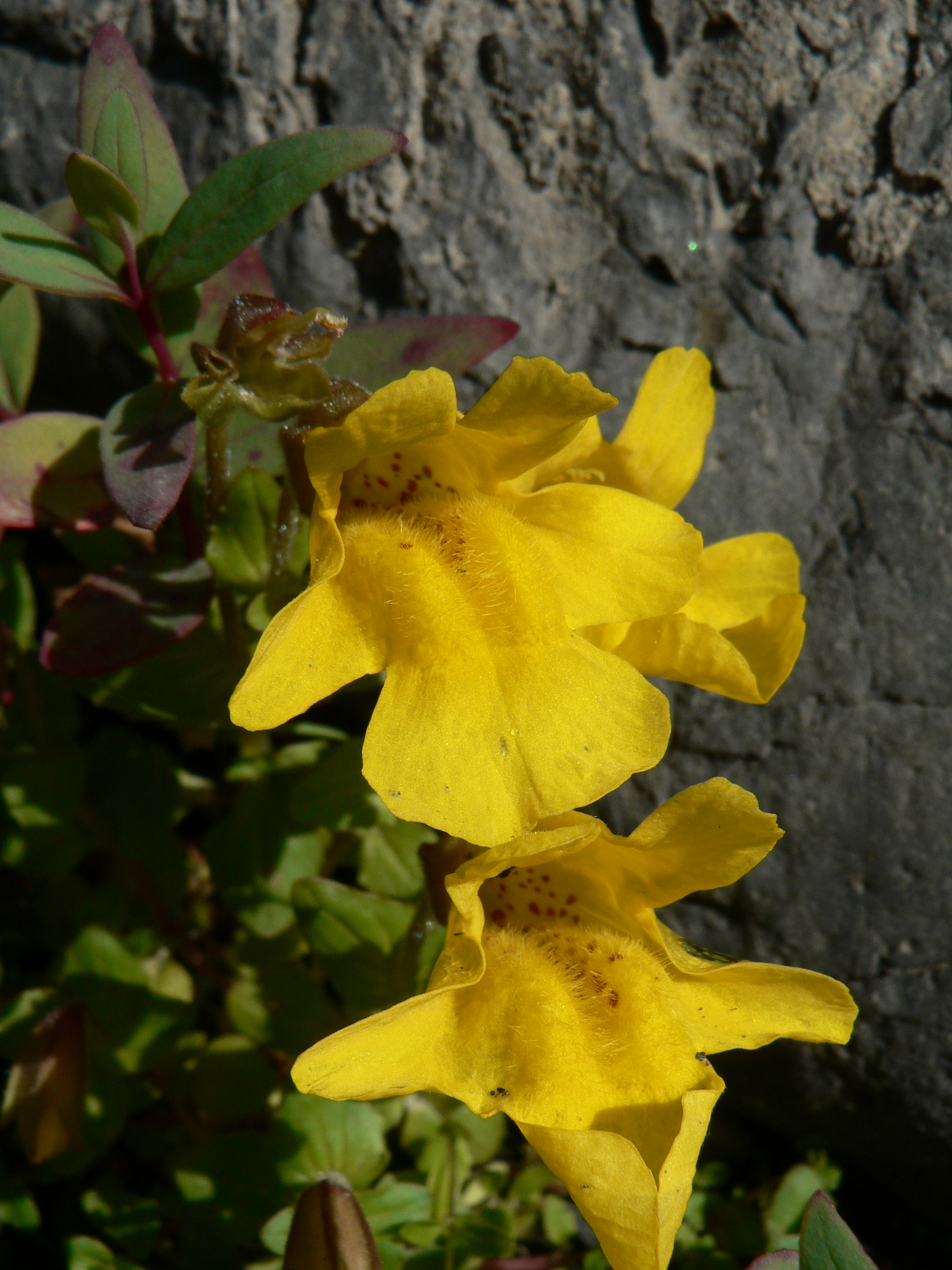 Tiling's Monkey-flower, Large Mountain Monkey-flower